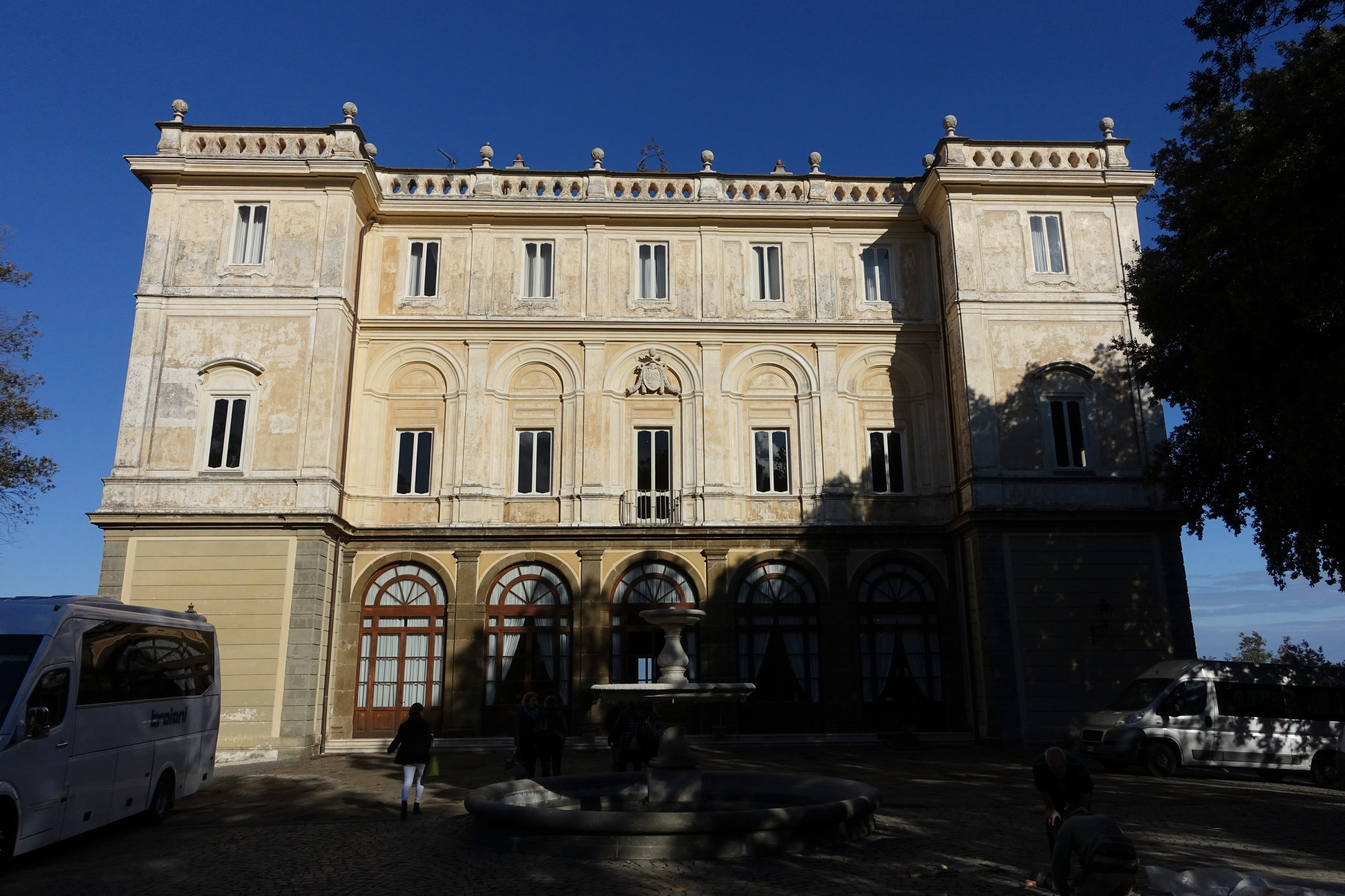 Villa Grazioli - Grottaferrata, Italy.